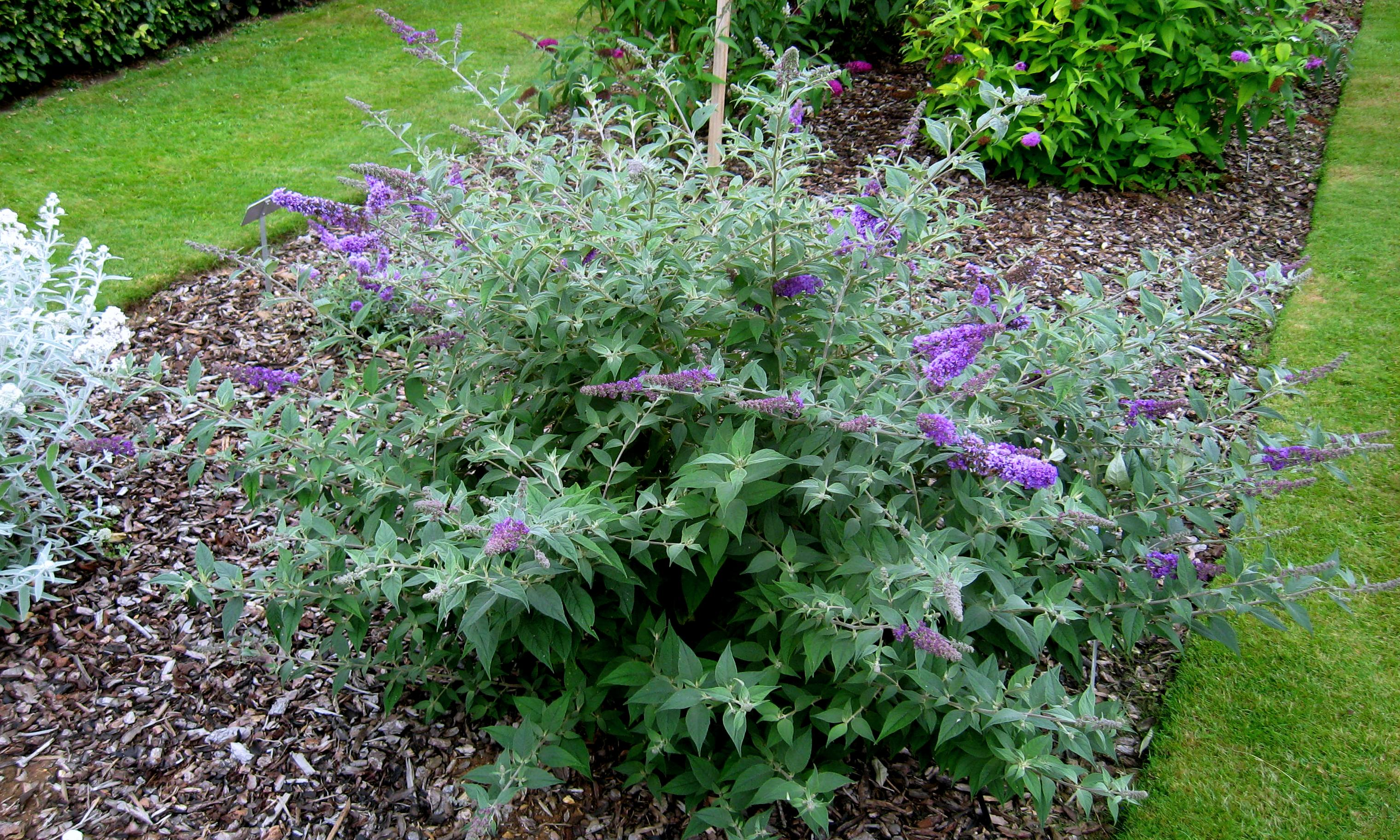 Photo taken at Longstock Park, UK, August 2012.